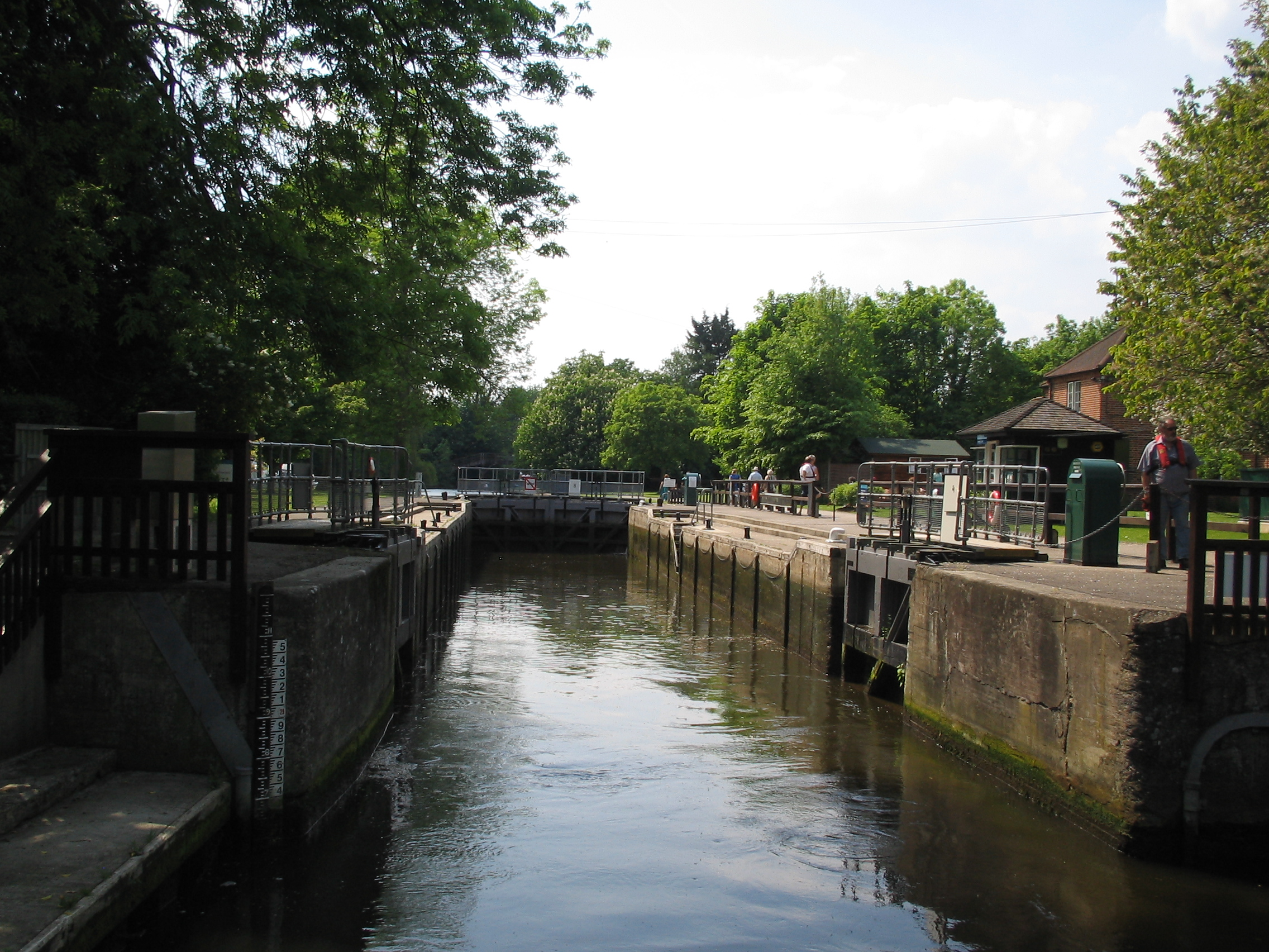 Hurley Lock on the River Thames with the tail gates open